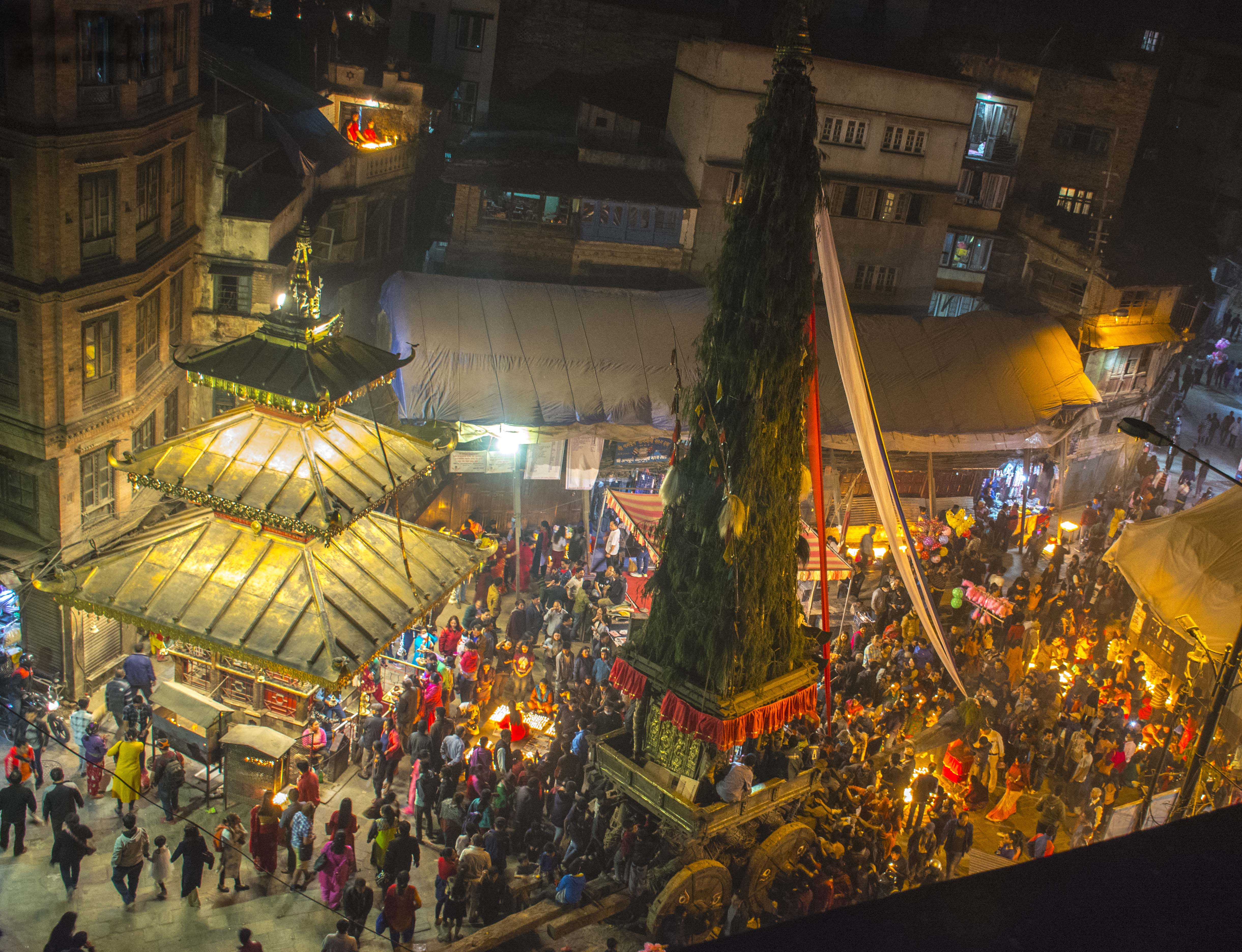 This photo was taken during the first day of Seto Machindranath Jatra when the Charriot of Seto Machindranath is brought from Tin Dhara Pathshala(Durbarmarg) to Ason Bazar and kept near to the temple of Goddess Annapurna.